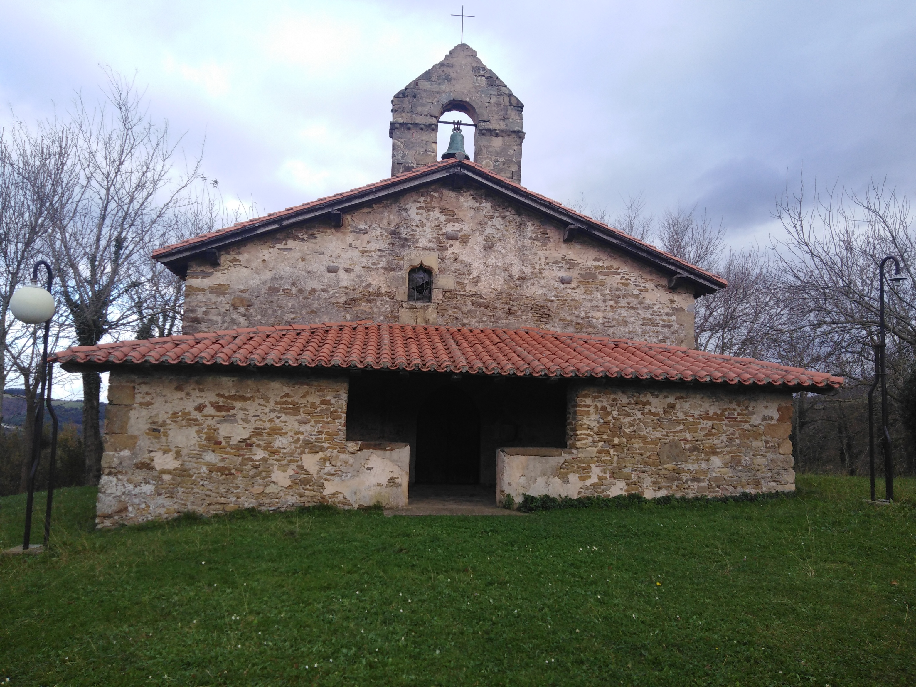 San Lorentzo hermitage, Zestoa. Gipuzkoa, Basque Country.